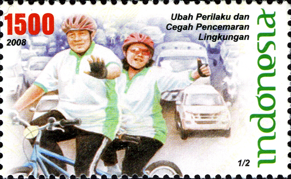 Stamps of Indonesia